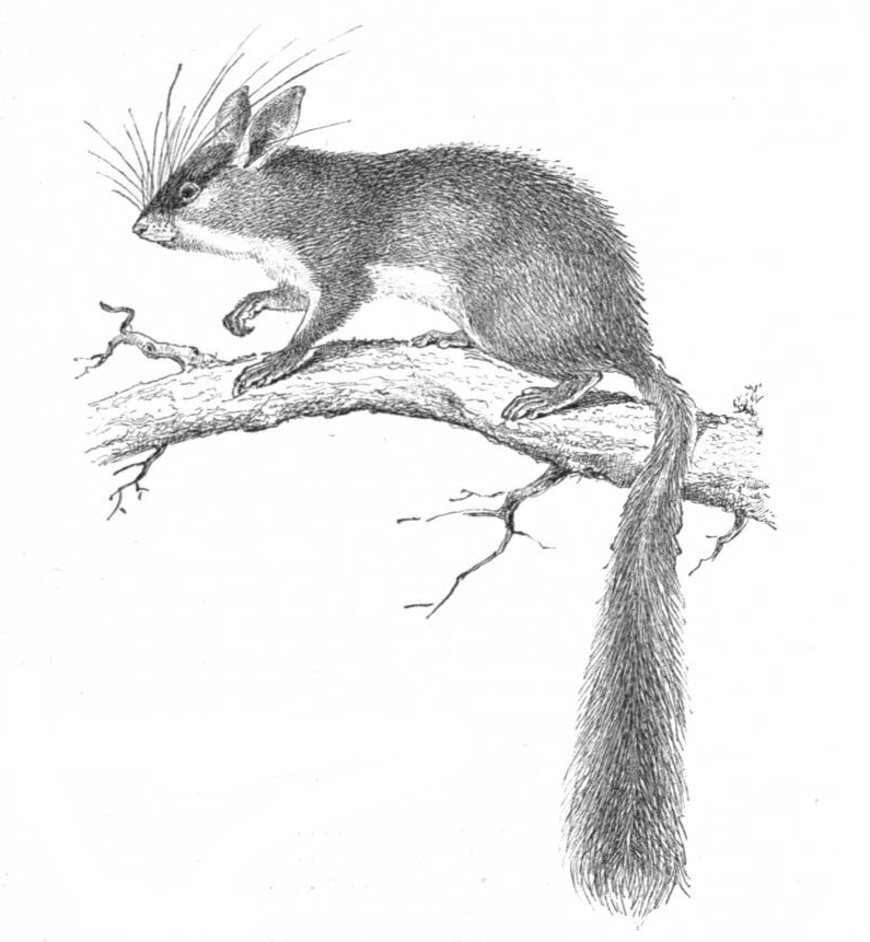 General shape of Platacanthomys lasiurus